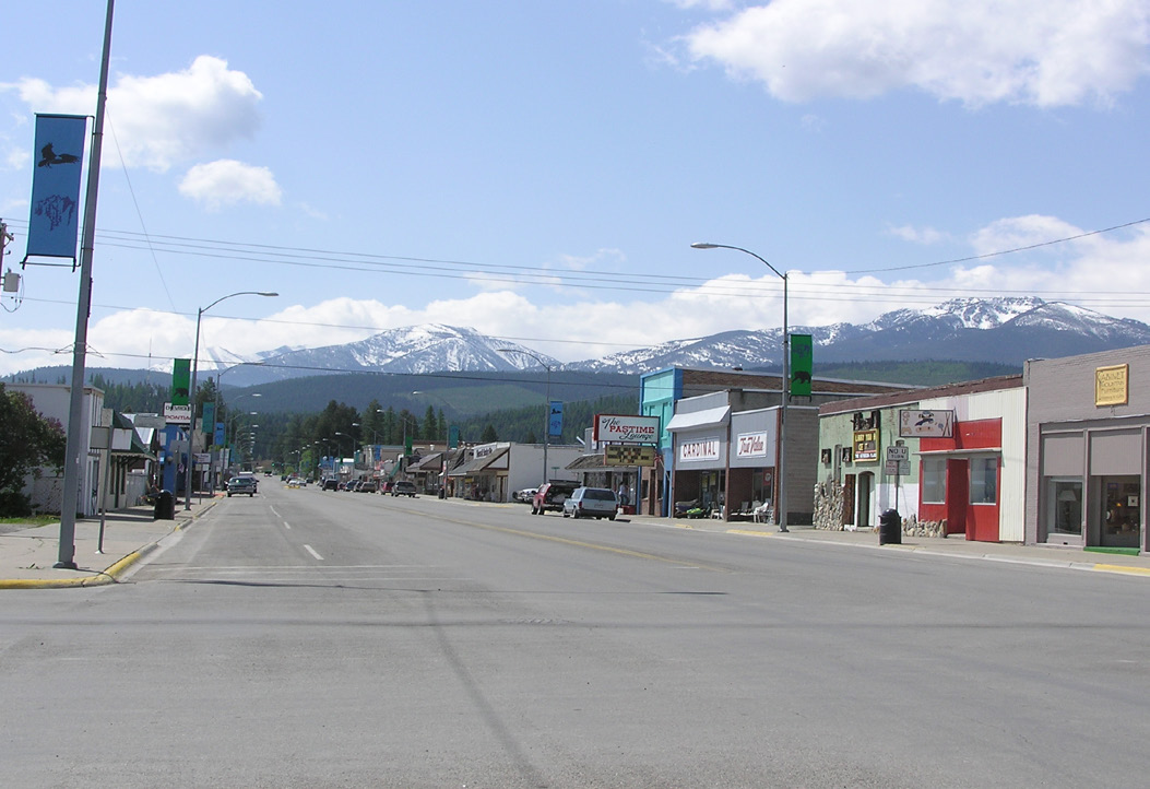 Libby, Montana